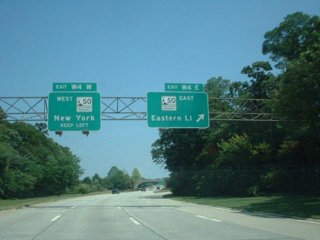 The Wantagh State Parkway northbound at Exit W4, the Southern State Parkway.